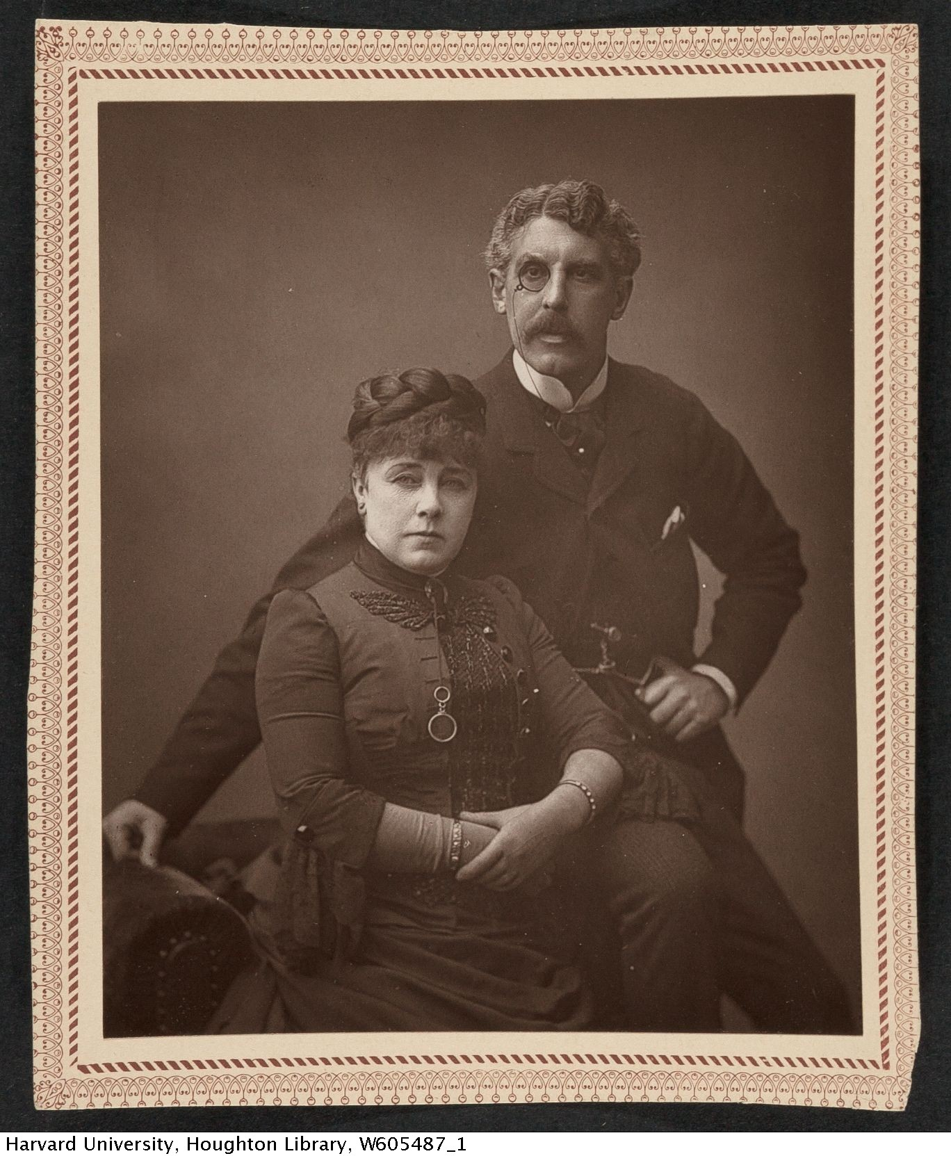 Cabinet card image of Squire Bancroft (1841-1926) and Effie Bancroft (1839-1921). TCS 1.1045, Harvard Theatre Collection, Harvard University